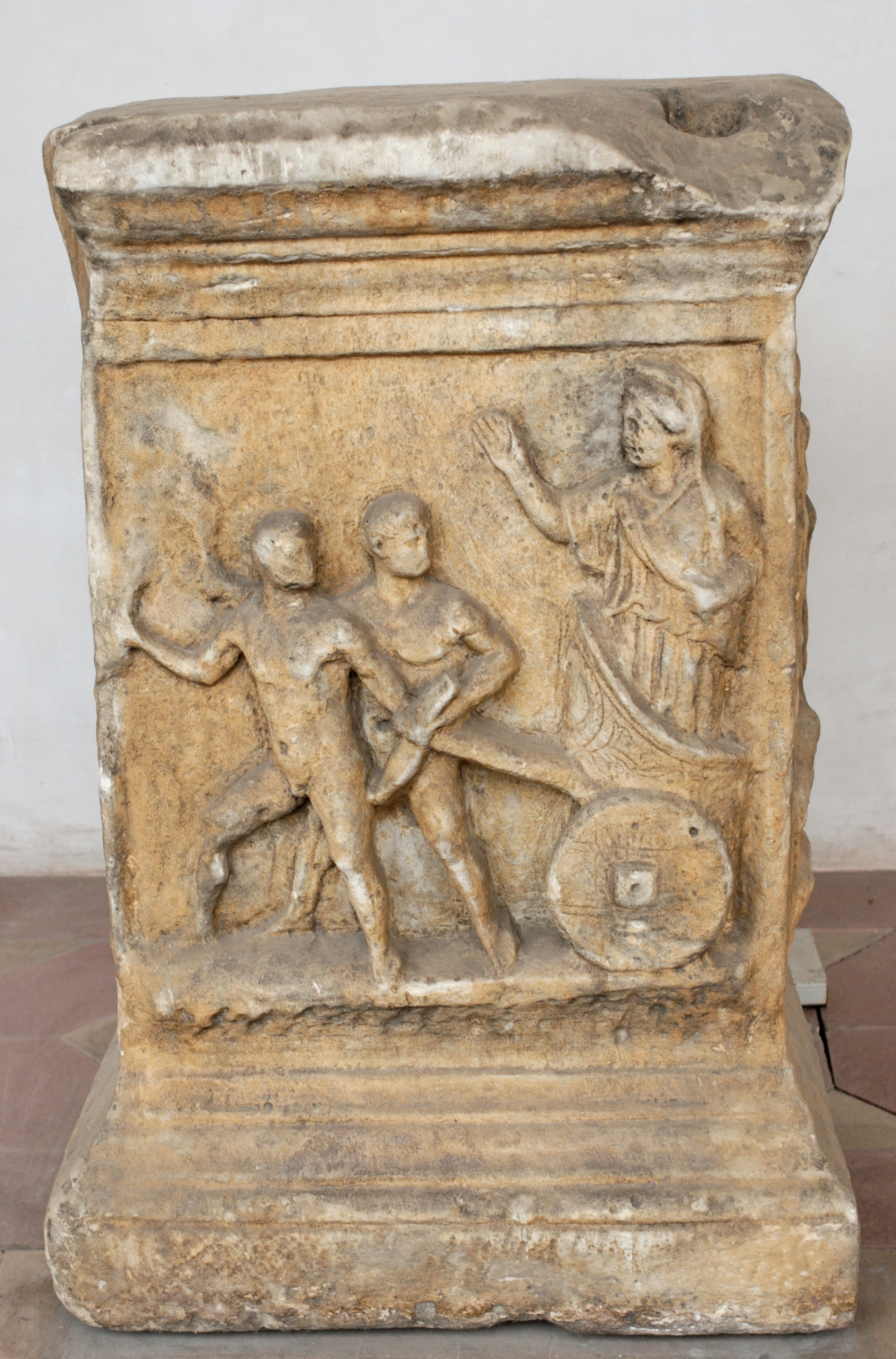 Altar with the myth of Kleobis and Biton. White marble, Roman artwork of the Imperial era. Found in Via della Giustiniana in Tor Vergata in Popolo.